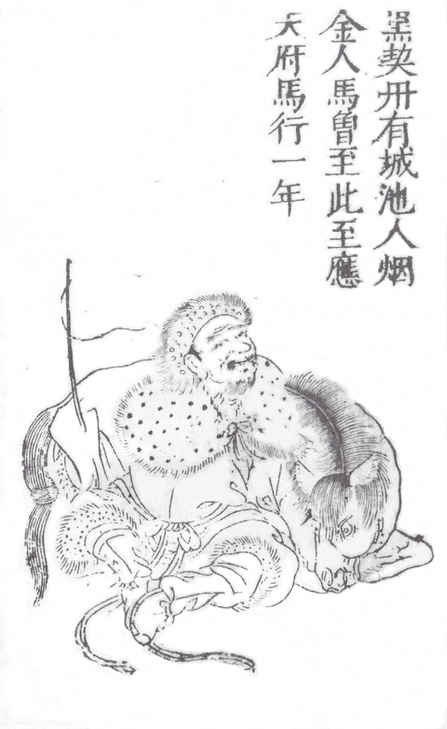 A Kara-Khitai man, illustration from Wang Qi's San Cai Tu Hui (1607)